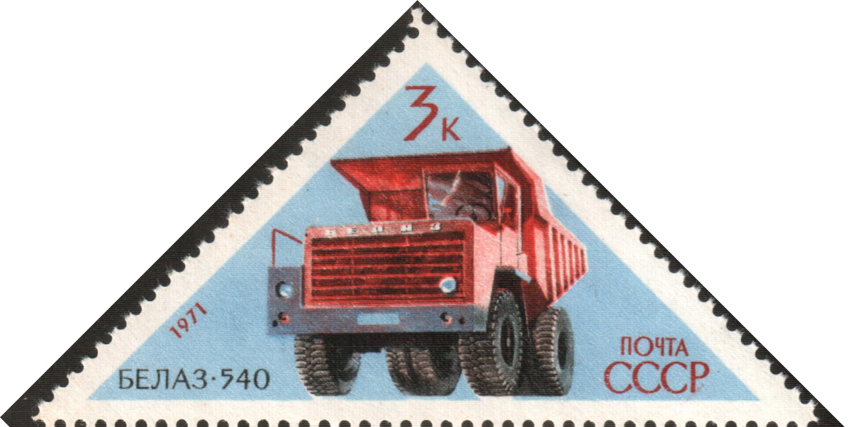 USSR stampː BelAZ-540 Tipper Truck. Seriesː Soviet Motor Vehicles